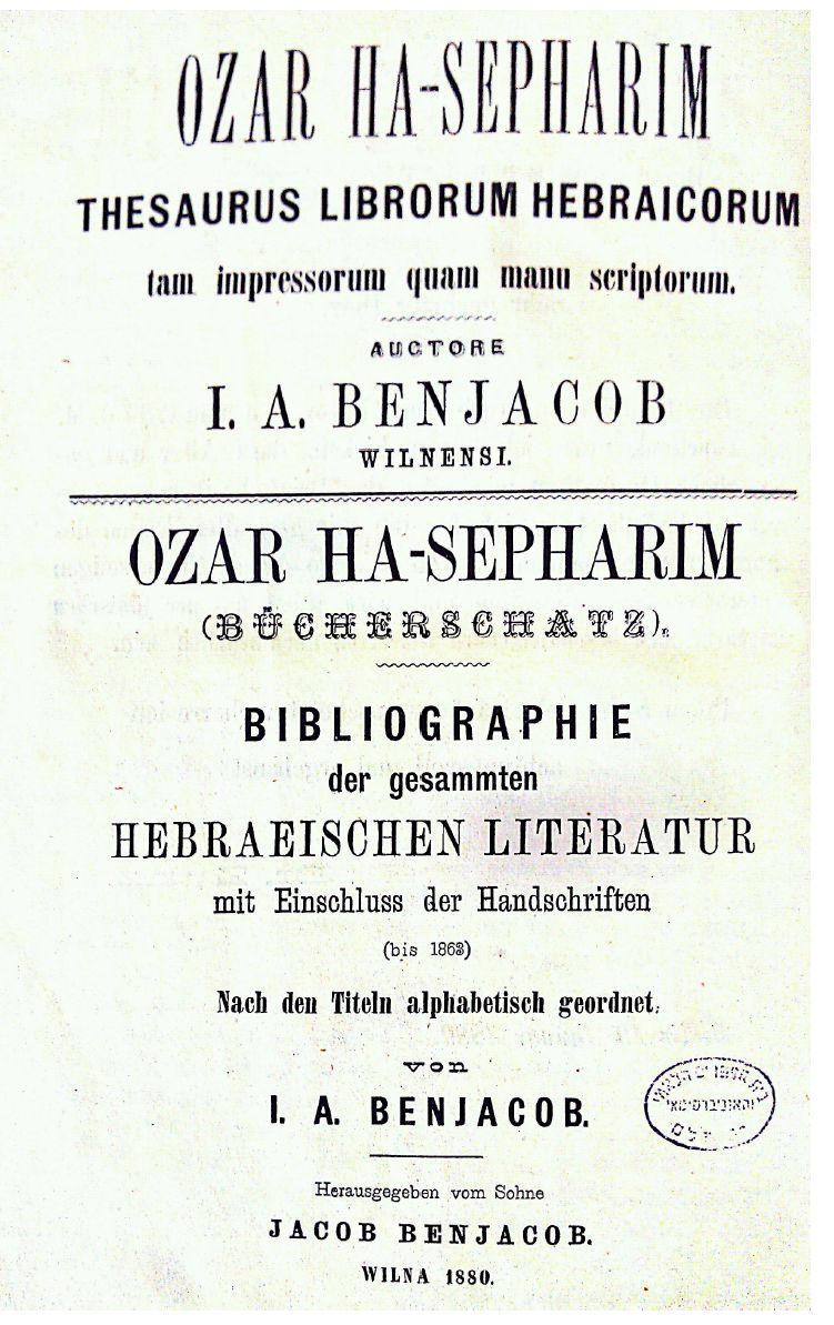 Otsat ha-Sepharim by Isaac Benjacob, the Latin cover